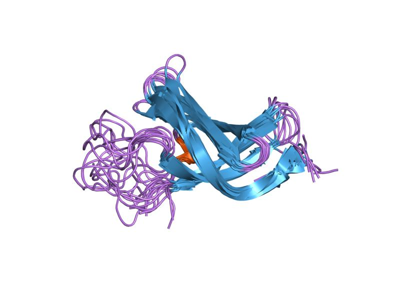 Cartoon representation of the molecular structure of protein registered with 1h95 code.